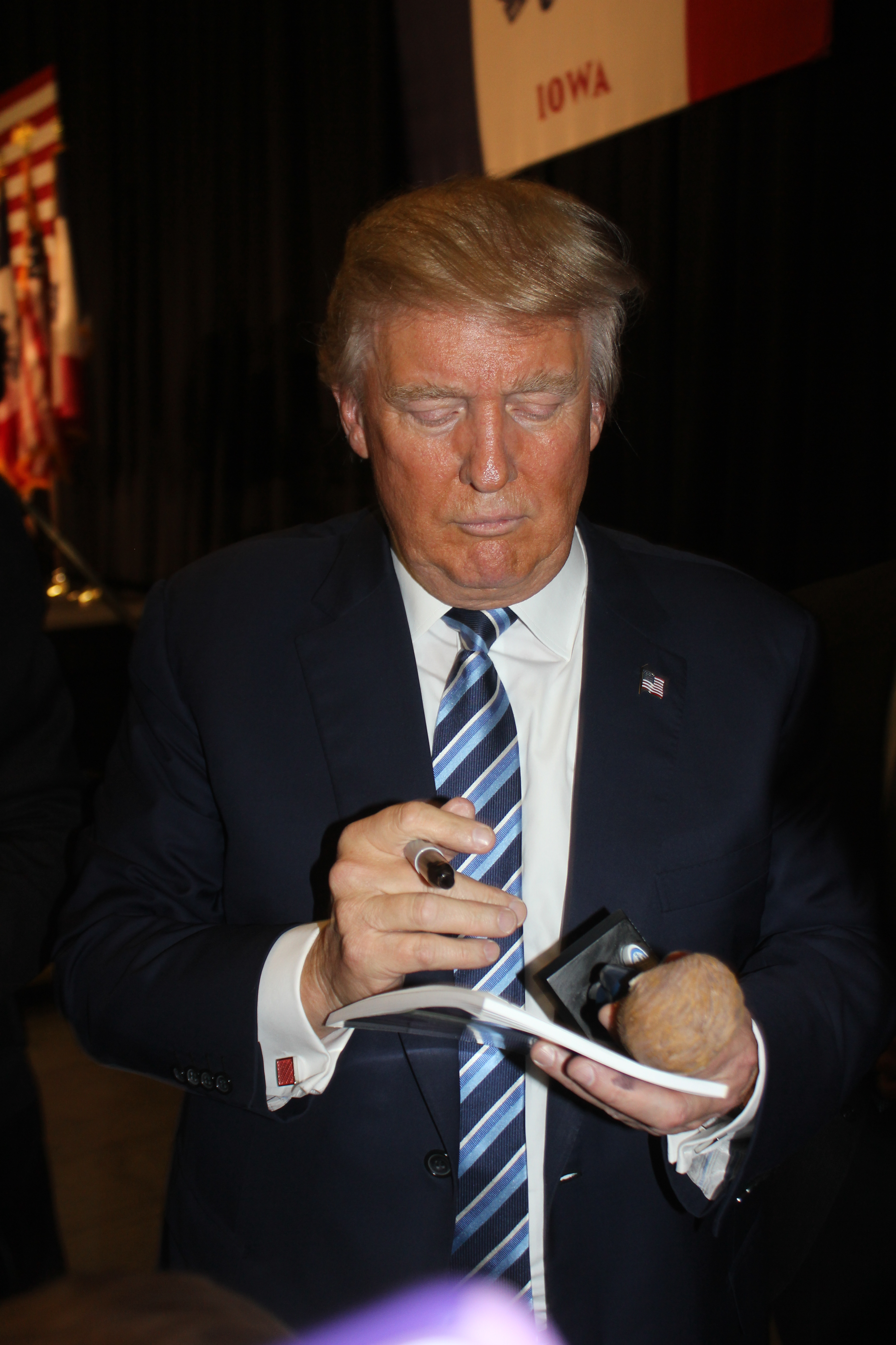 Presidential candidate Donald Trump signs autographs at a campaign stop at the Mid-America Center in Council Bluffs, Iowa. J. if used elsewhere.